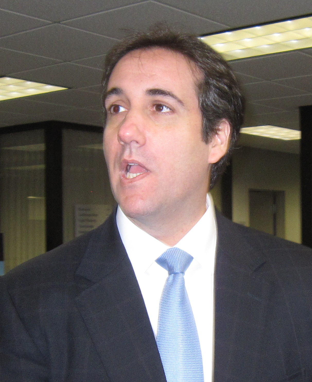 Trump executive Michael Cohen 013